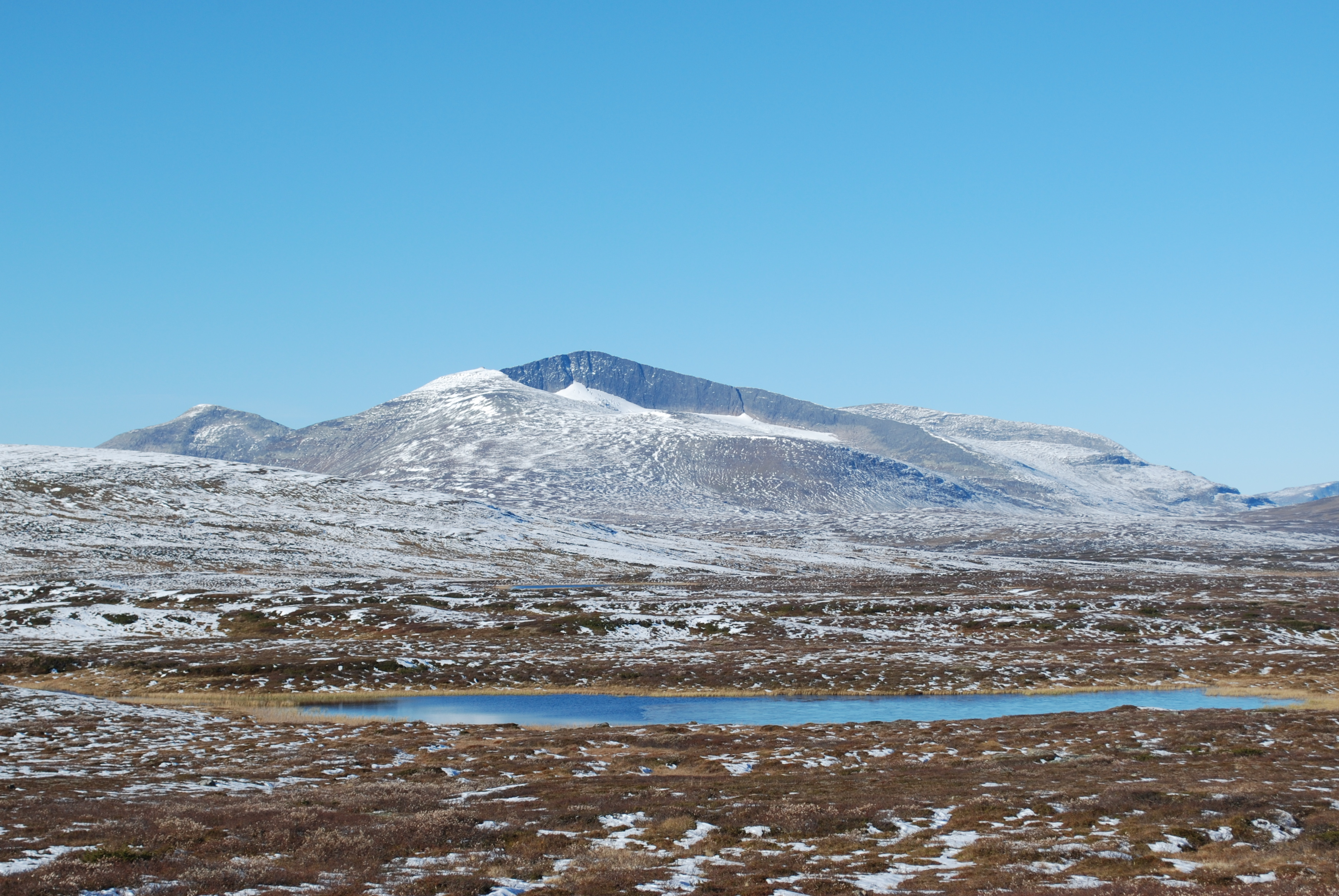 Mount Helags, 1 october 2010.